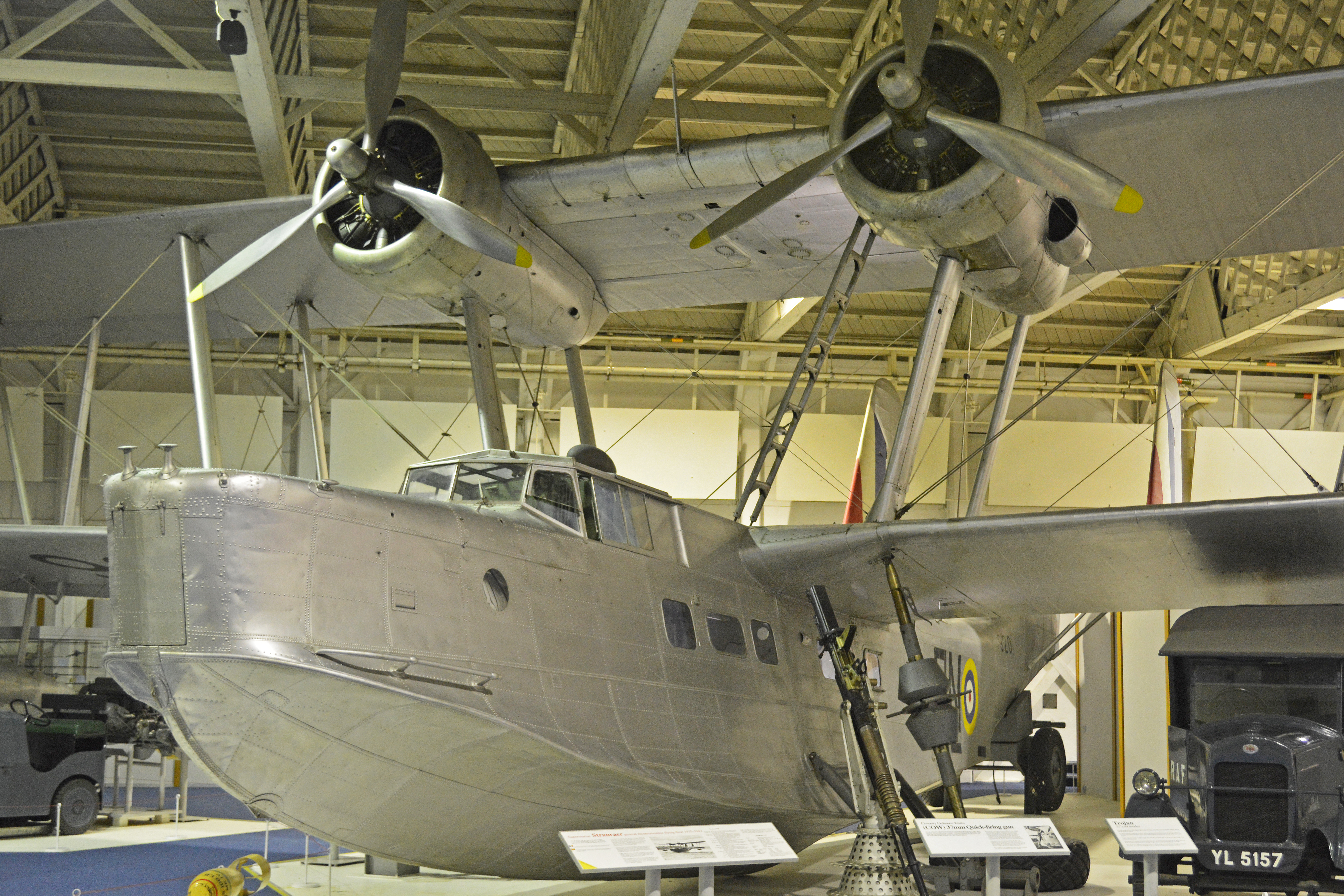 c/n CV-209. Built late 1940 in Canada by Canadian-Vickers. Flew operationally with the RCAF until April 1944. Sold in May 1944 as the first Stranraer civil conversion and registered as ‘CF-BXO’. Continued civil operations until August 1966 and then stored. During its years in civil use, several minor non-standard modifications had been carried out. Purchased by the RAF Museum in 1970, it was dismantled and brought to the UK in two RAF Short Belfasts. It was then restored and repainted at Henlow and in 1972 it went on permanent display in the main historic hangars at Hendon, where it remains today as the only complete survivor of the type. RAF Museum, Hendon, London, UK. 22-3-2015